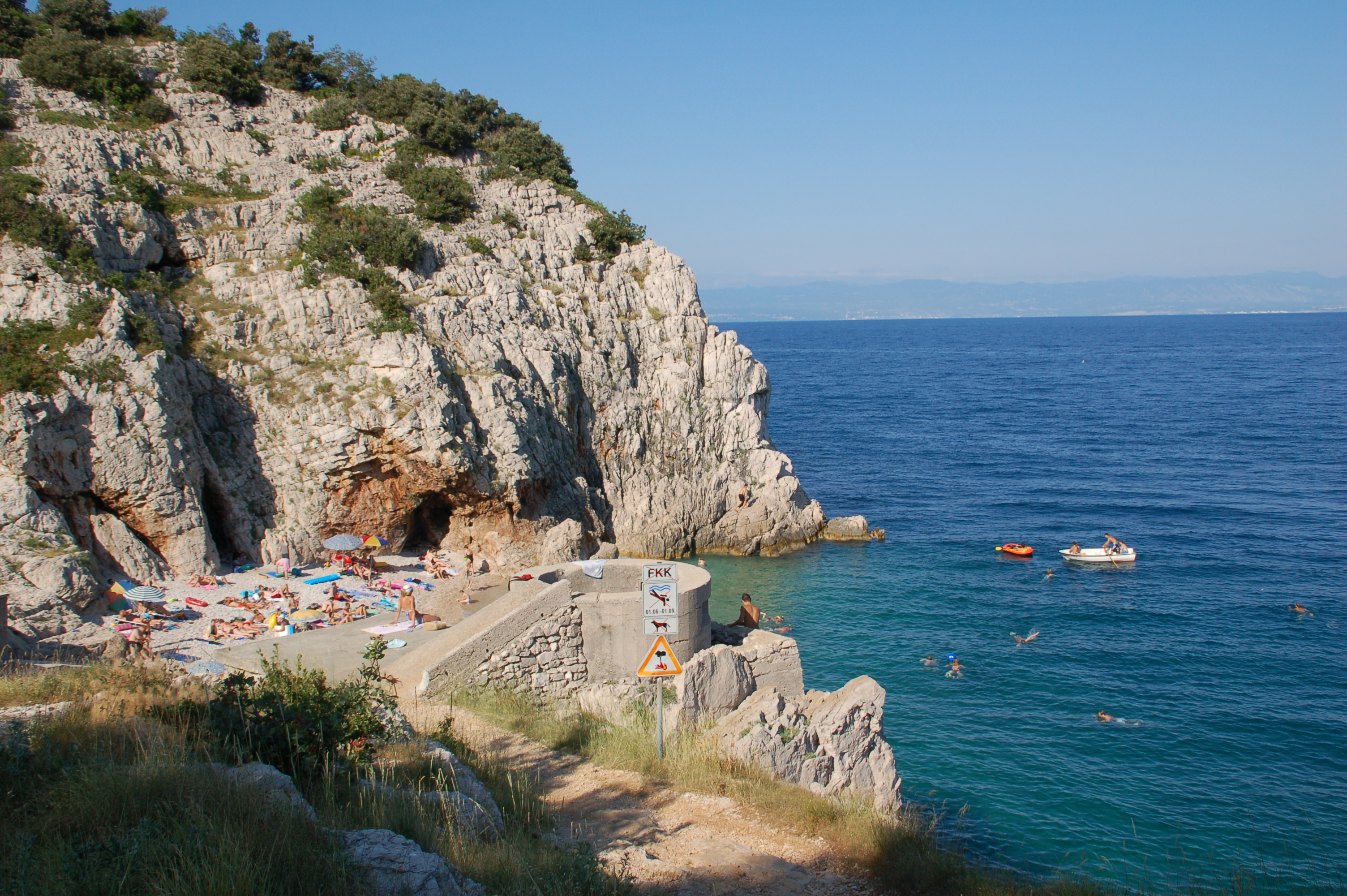 Croatia, Istria, Brseč 15 km south Lovran